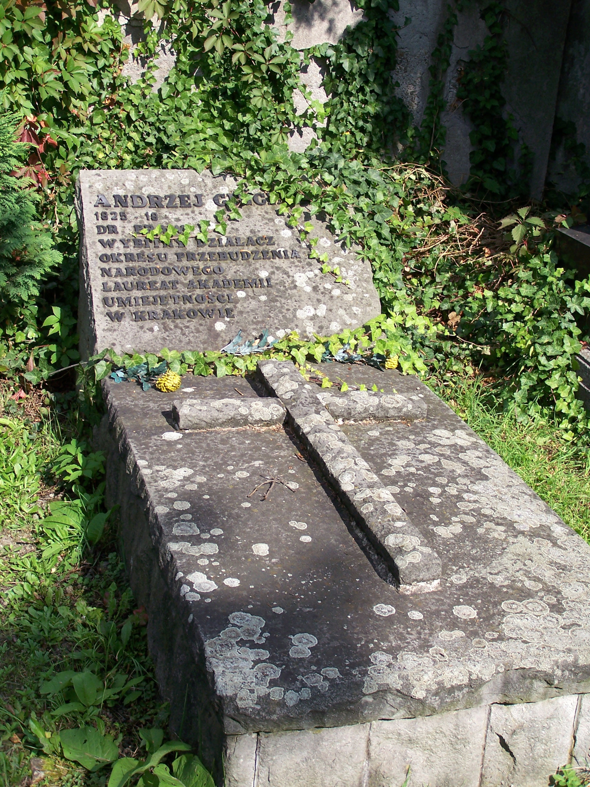 Grave of Andrzej Cinciała, lawyer and activist at the Protestant cemetery in Cieszyn, Poland